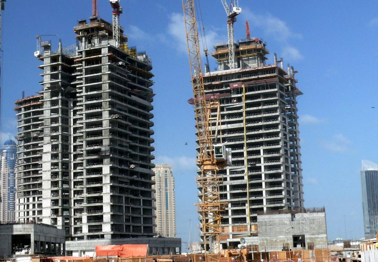 This is a photo showing the construction of Jumeirah Bay, located in Jumeirah Lake Towers in Dubai, United Arab Emirates, on 8 January 2008.